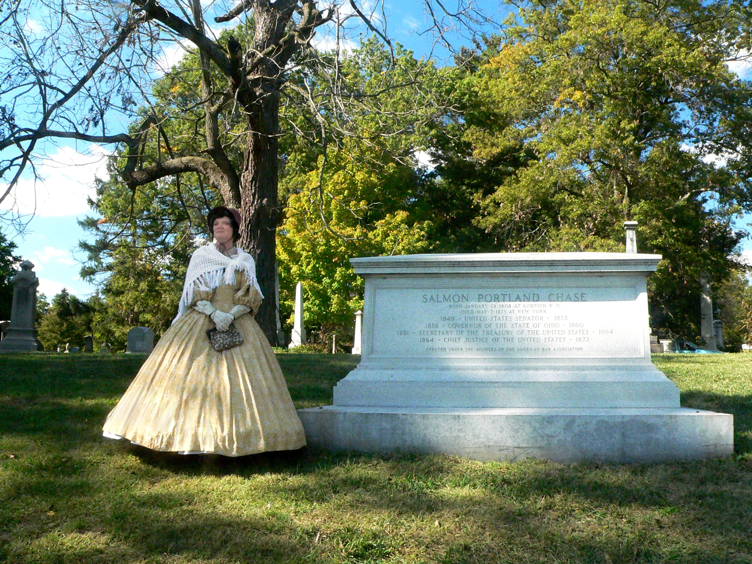 The grave of Salmon P. Chase in Spring Grove Cemetery, Cincinnati, OH. Taken 10/16/2005 by Greg Hume. A docent in period dress portrays Chase's daughter. Greg5030 02:24, 27 February 2007 (UTC)